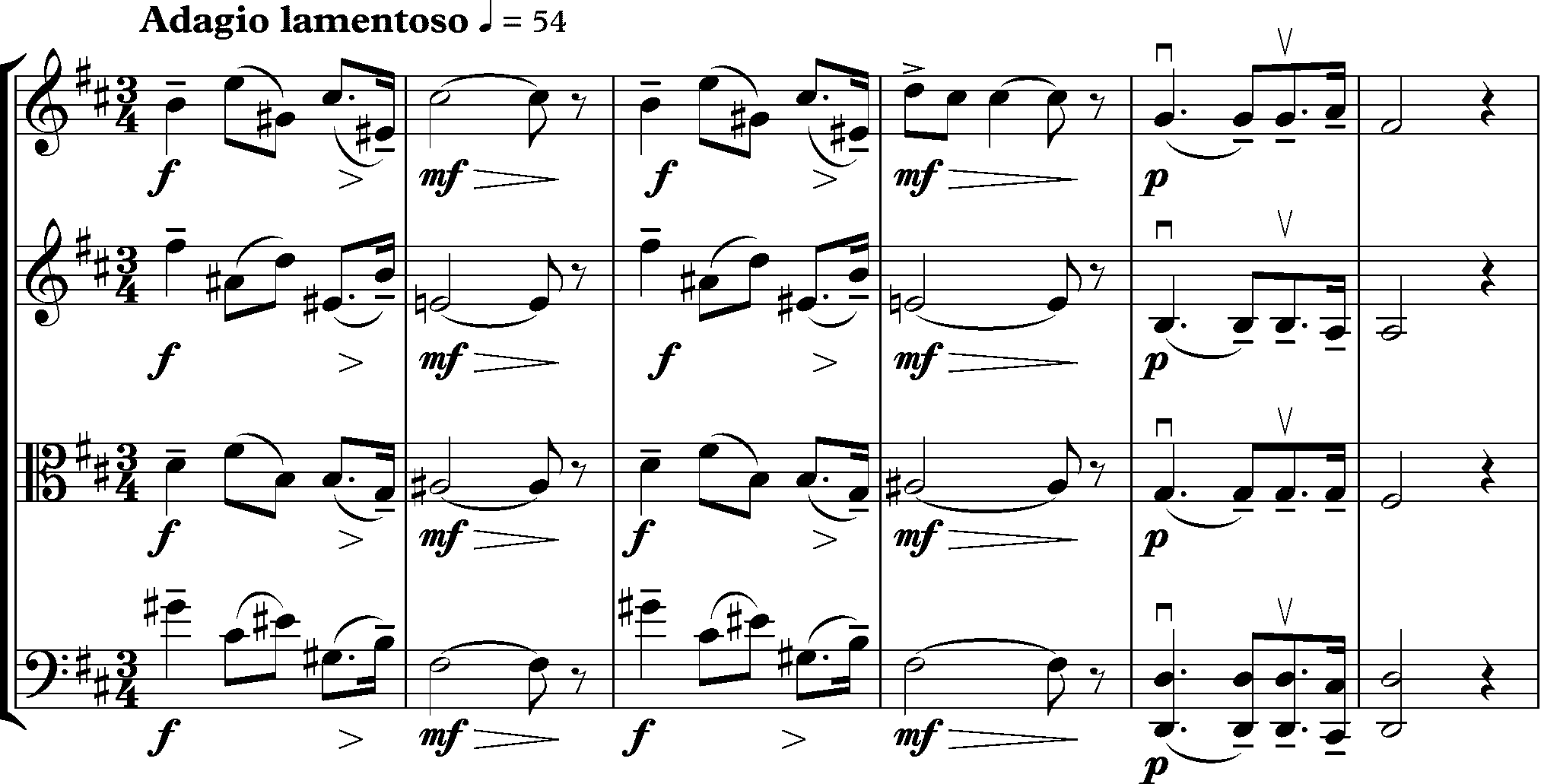 Tchaikowsky Symphony 6, finale bars 1-6